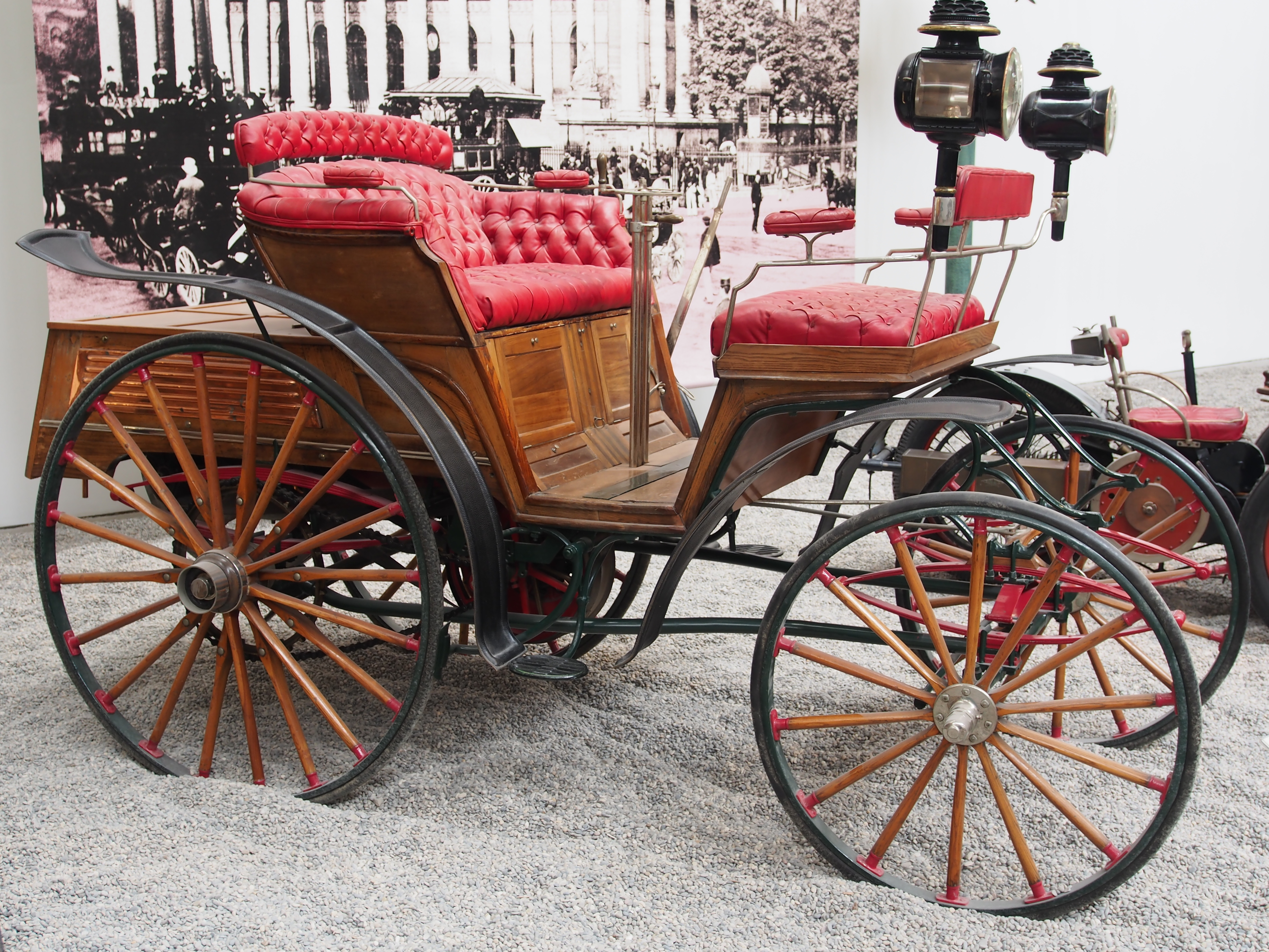 Photographed at the Cité de l'Automobile, France.